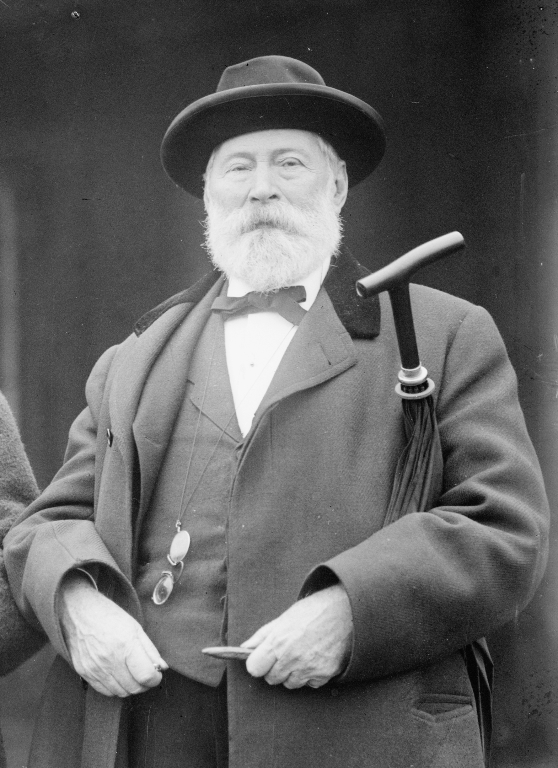 James Martin Eder, a Jewish Latvian industrial pioneer of the sugar industry in Colombia. Taken in 1913.